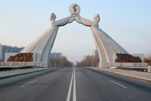 Unification monument in Pyongyan